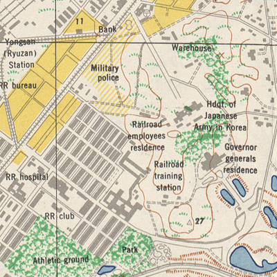 Official residence of Governor General of Korea, Yongsan